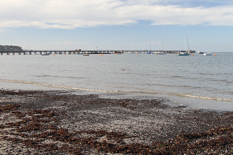 Looking north-east from the Flinders foreshore across the beach to the 250m pier. Victoria, Australia.